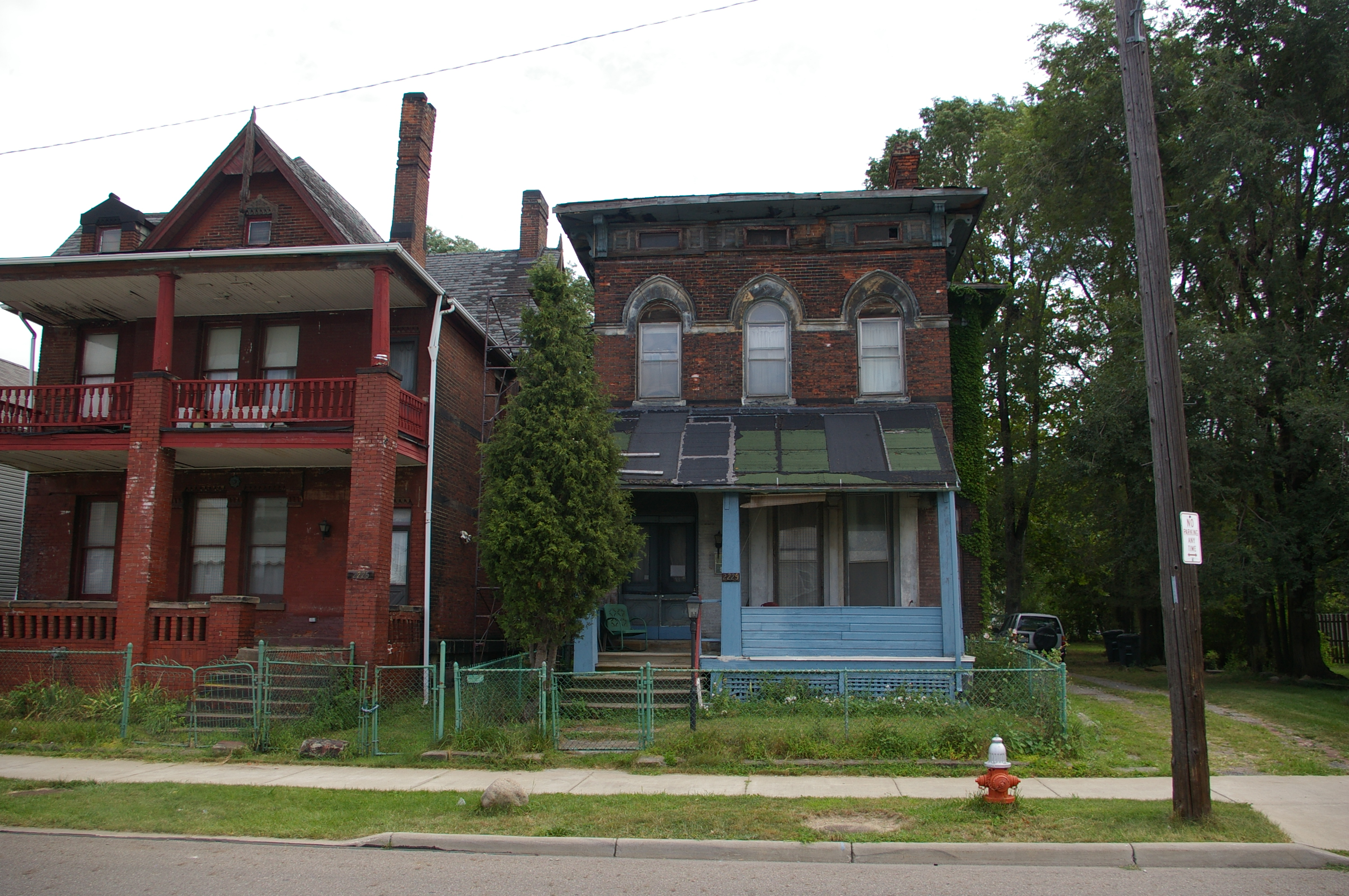 A view of the Andrew Dall, Jr., and James Dall Houses at 2225 and 2229 East 46th Street, in Cleveland, Ohio. The structures are listed on the National Register of Historic Places. The James Dall house is on the left, the Andrew Dall house, on the right. The front porches are later additions